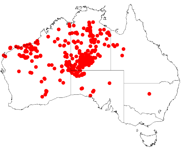 Scaevola amblyanthera Occurrence data downloaded from Australasian Virtual Herbarium on 12 May 2019